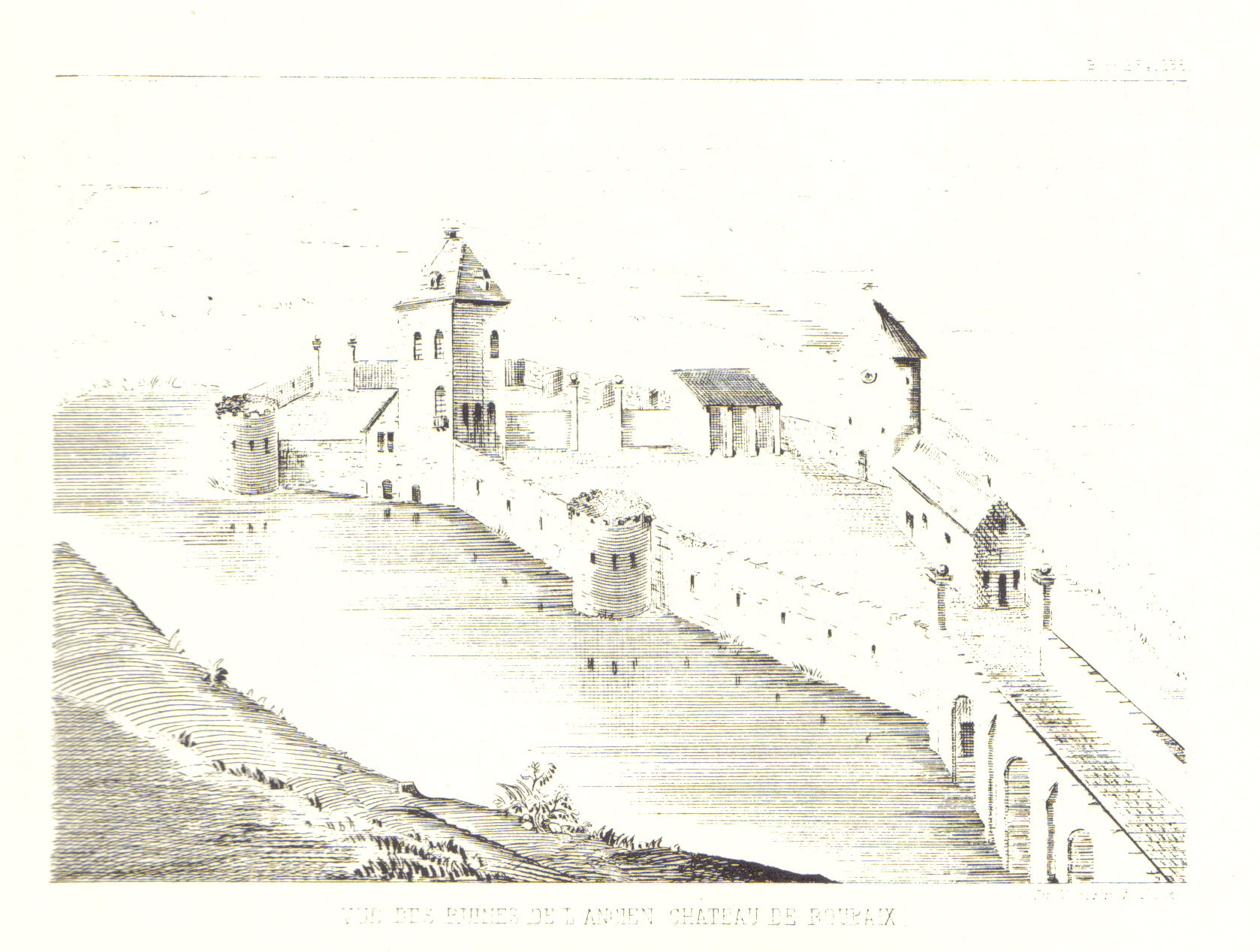 Sketch of the remains of the old castle of Roubaix in northern France.